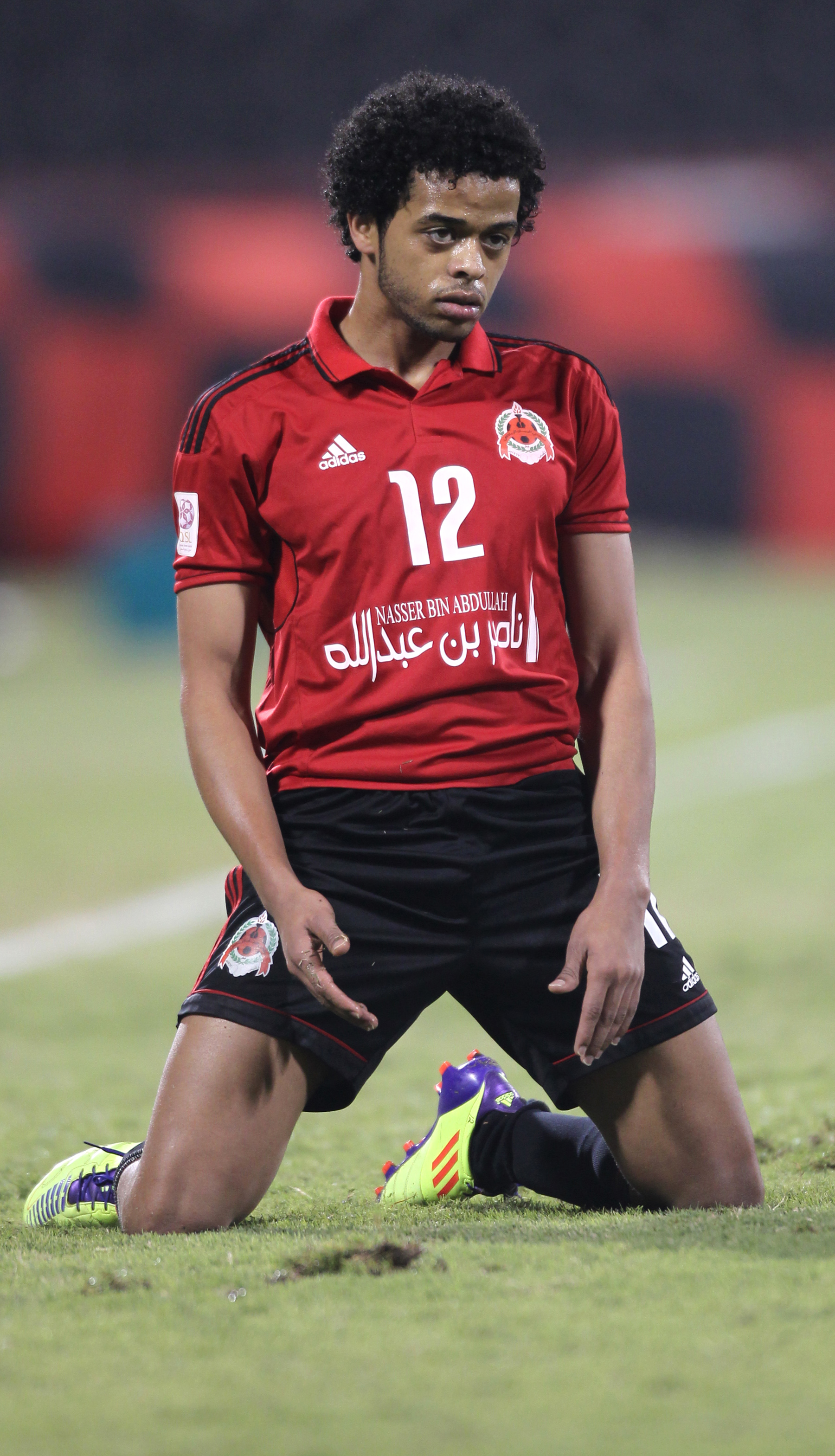 Al Rayyan's Qatari player Hamid Ismail reacts during a Qatar Stars League match.